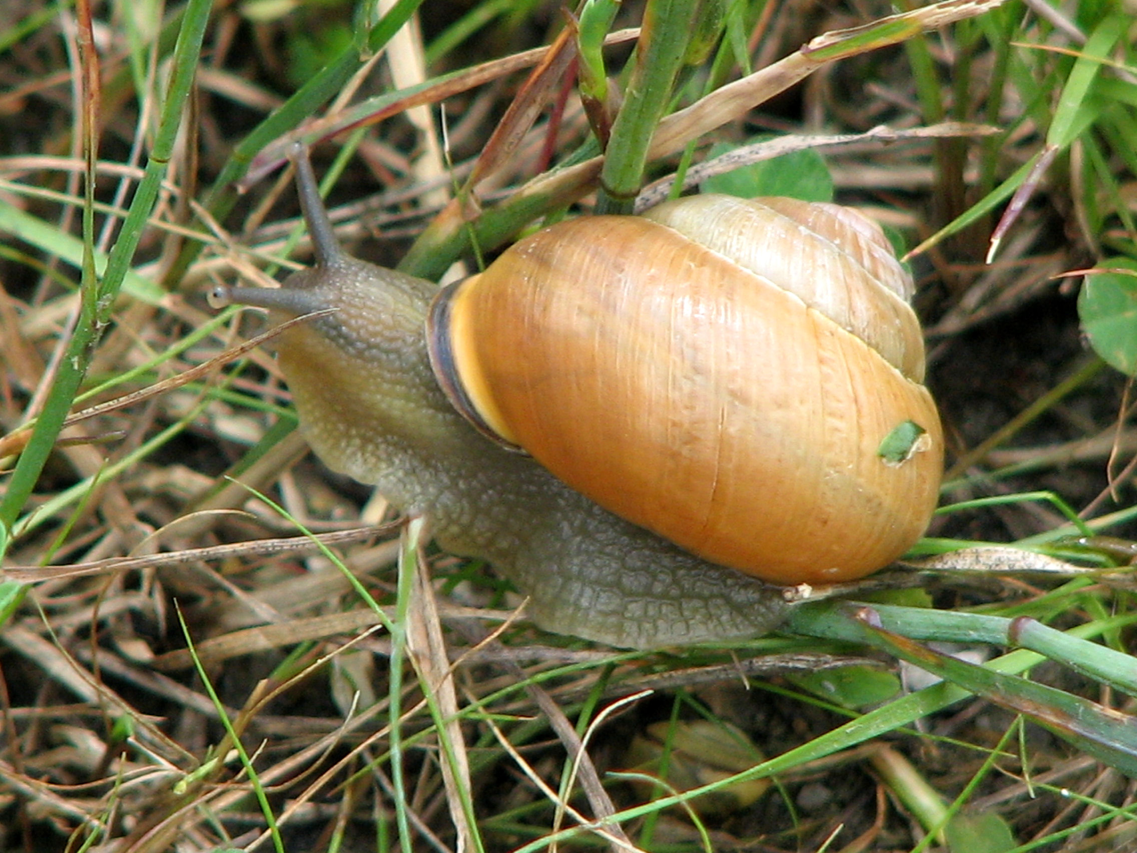 Grove Snail (Cepaea nemoralis), Ottawa, Ontario, Canada